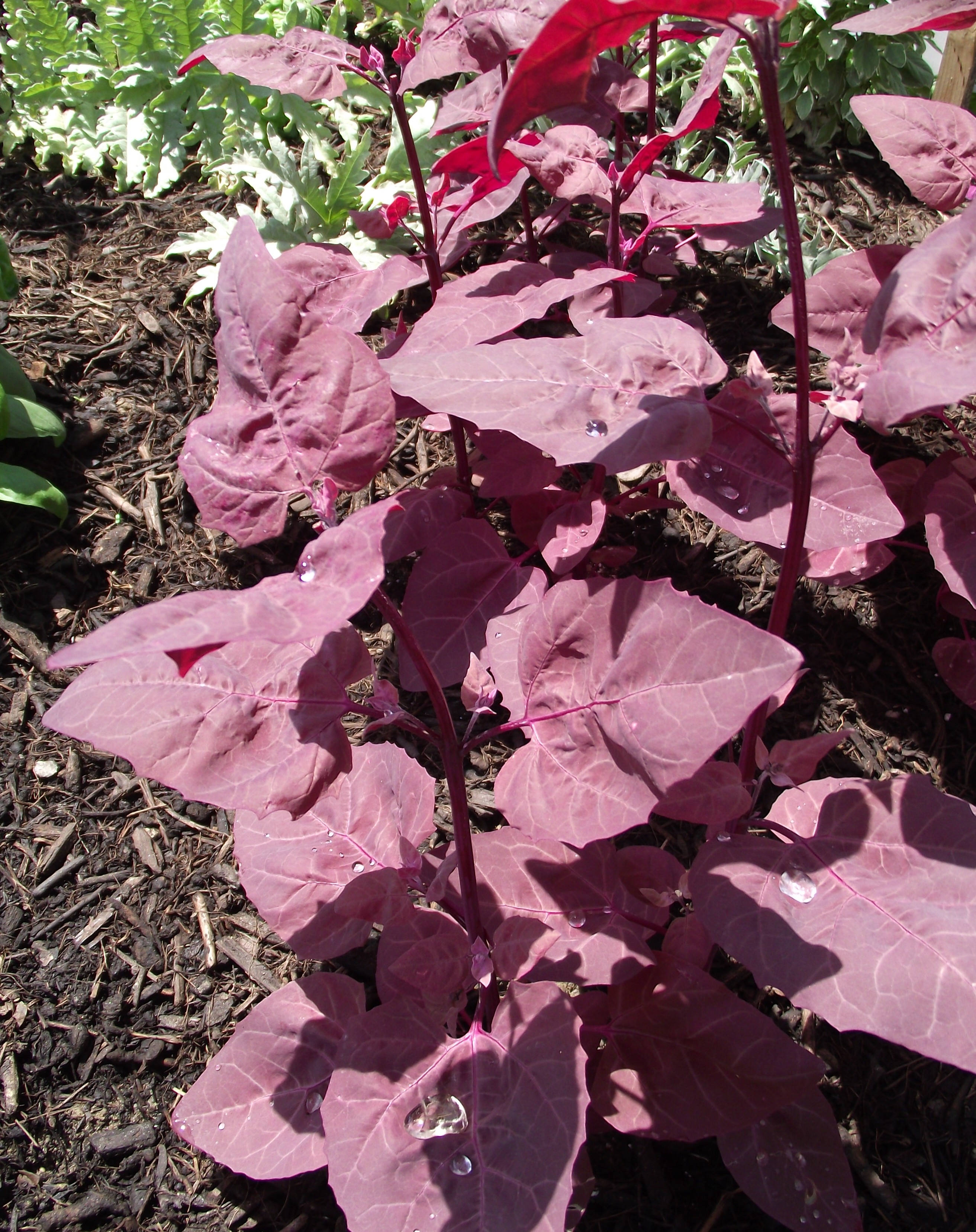 Atriplex hortensis at the San Diego County Fair, California, USA. Identified by exhibitor's sign.